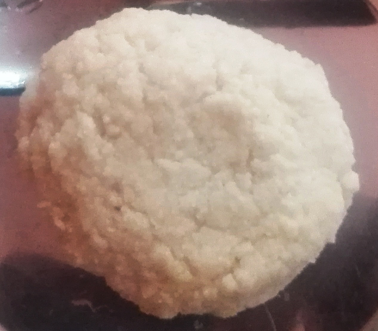 Monda, Muktagacha, Maymensing